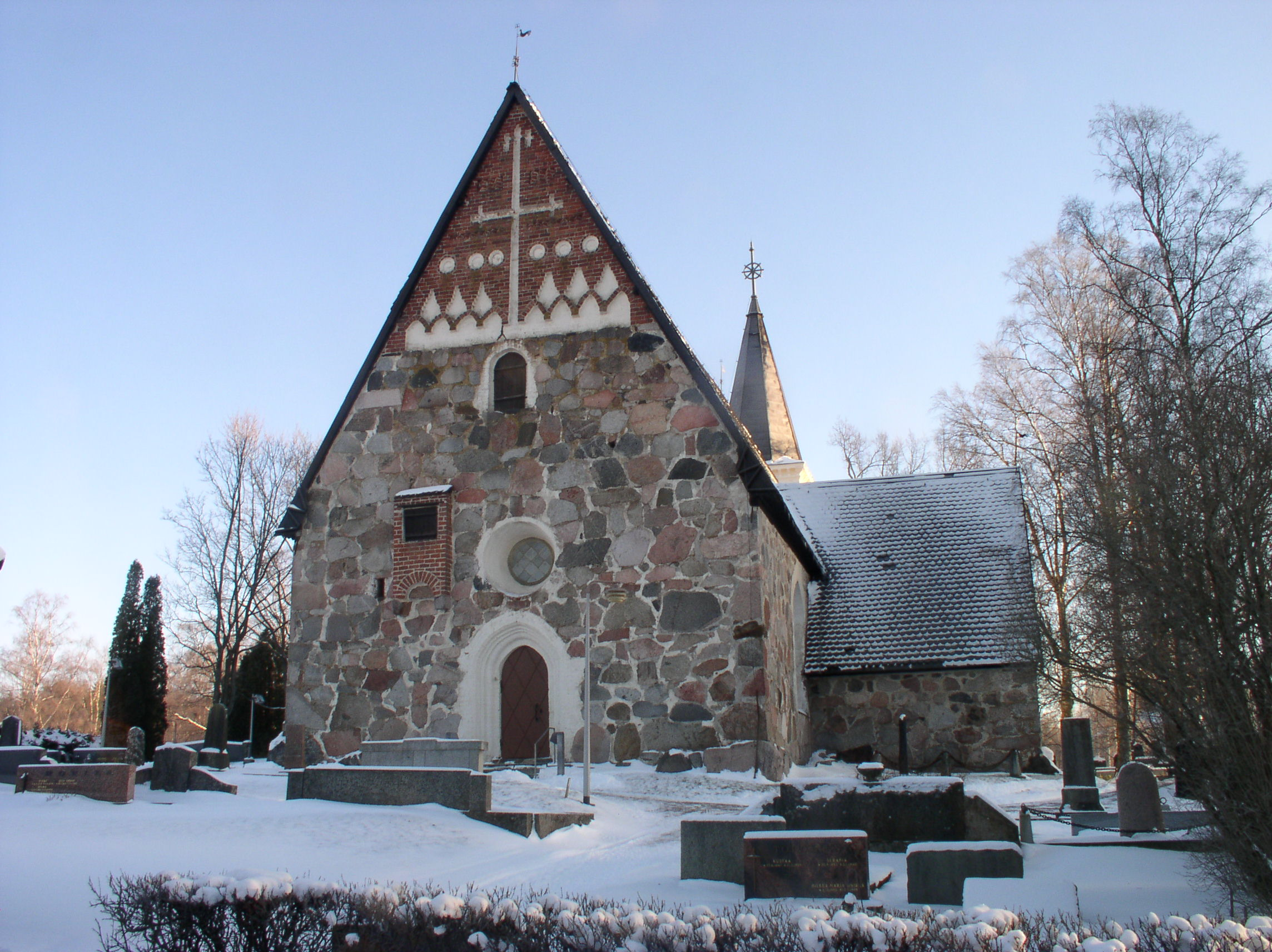 Vanaja church, Hämeenlinna, Finland